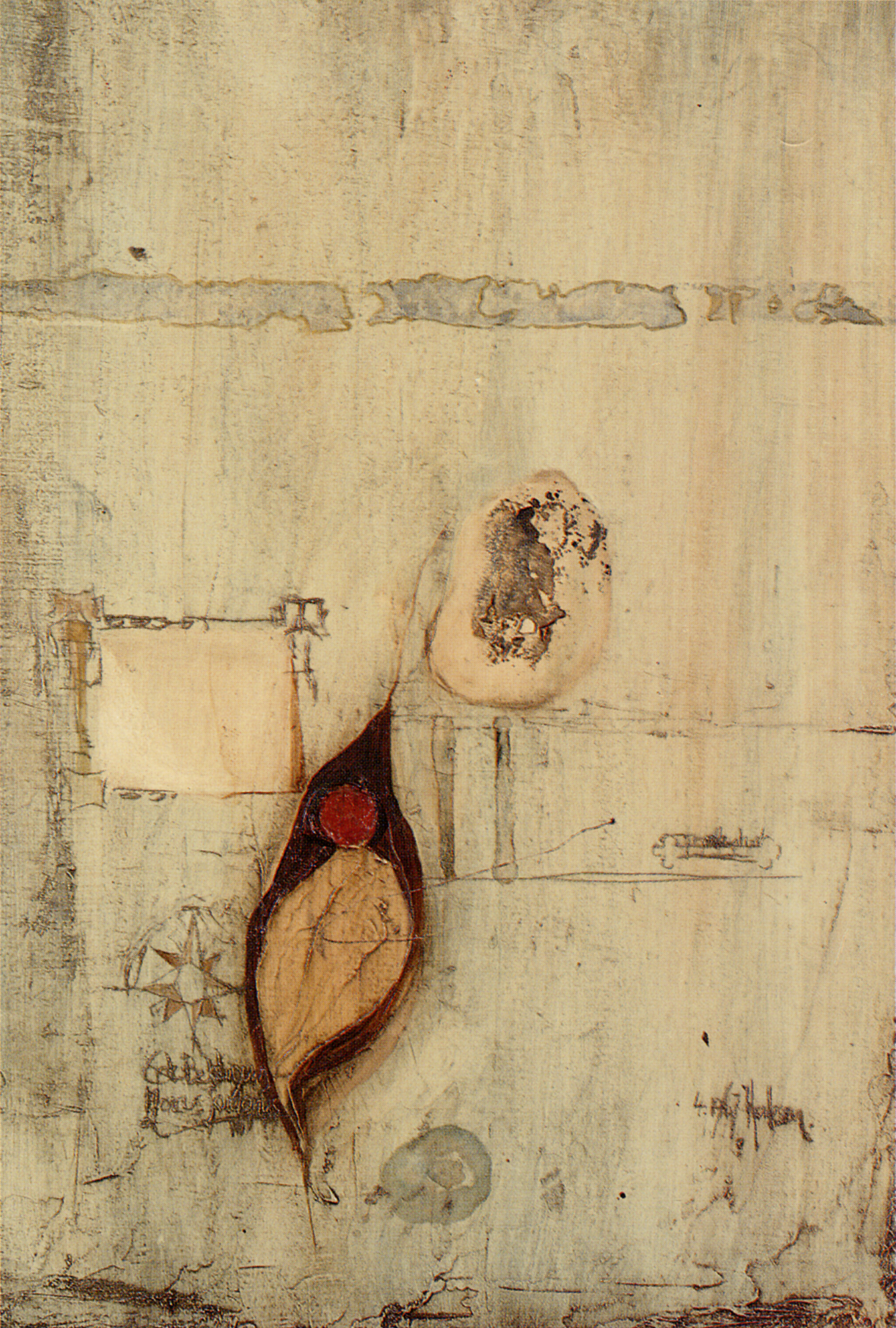 Hommage to the Danish cartographer and mathematician Marcus Jordanus (ca. 1531-1595), Painting by German-Danish Artist Holger Hattesen (Flensburg 1937-1993).